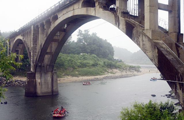 this archive this personal